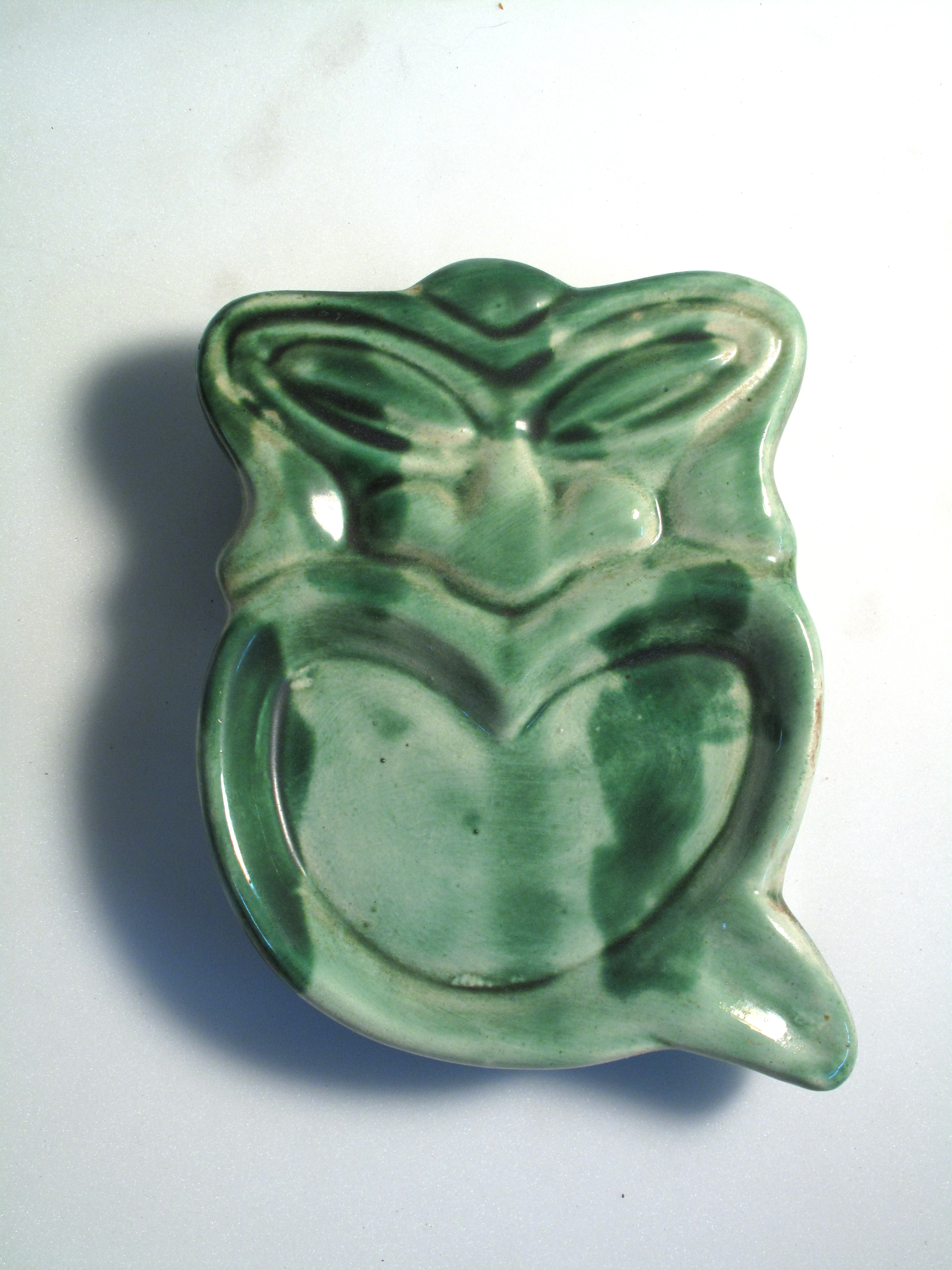 Green ashtray, tiki decoration